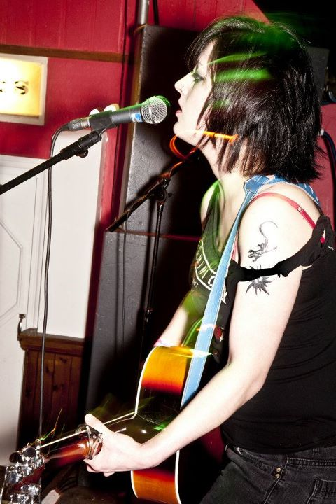 Louise Distras live at AWOD Punk Festival March 2012